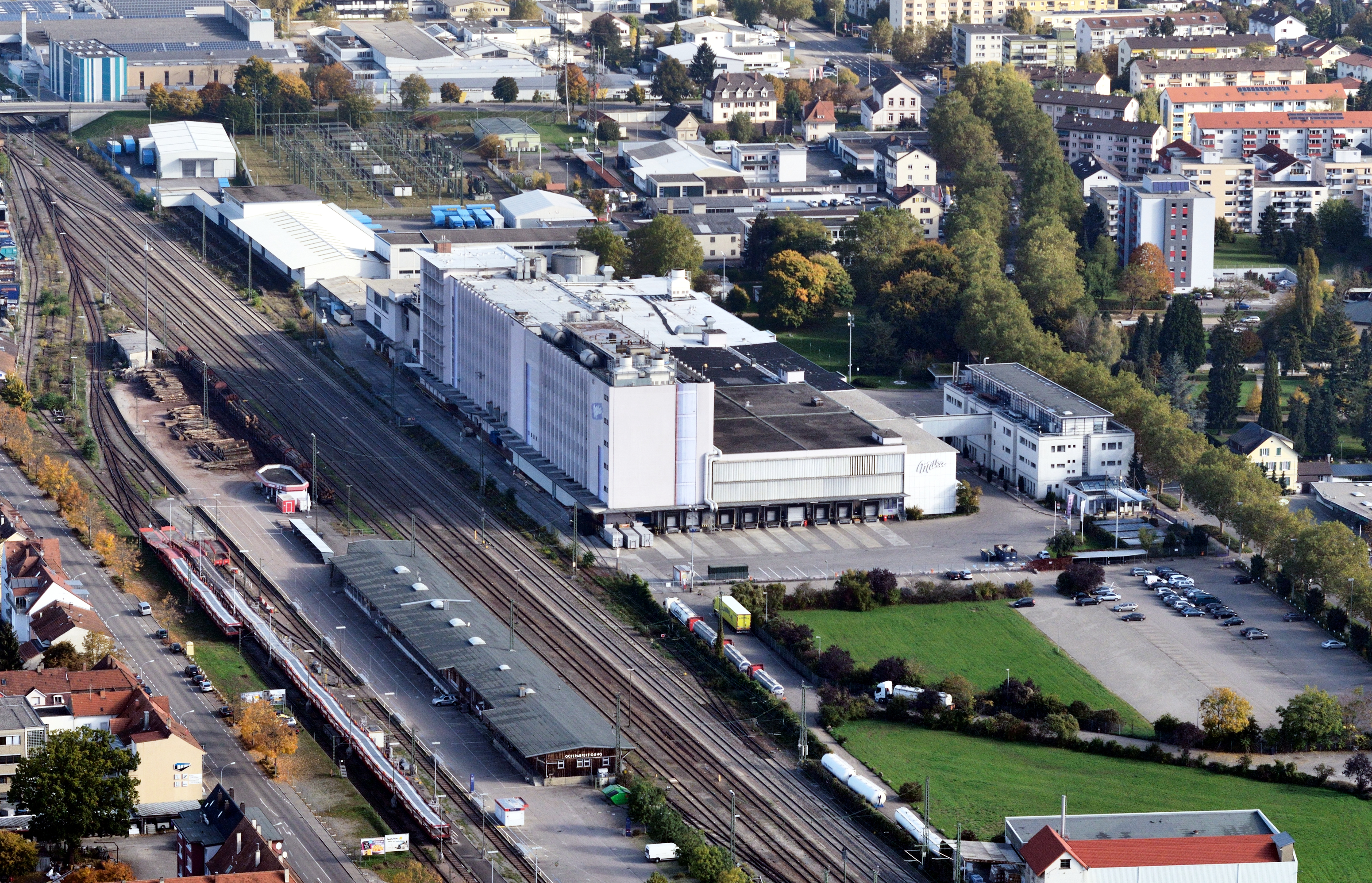 Aerial view of Milka factory, Lörrach on left side: motorail station